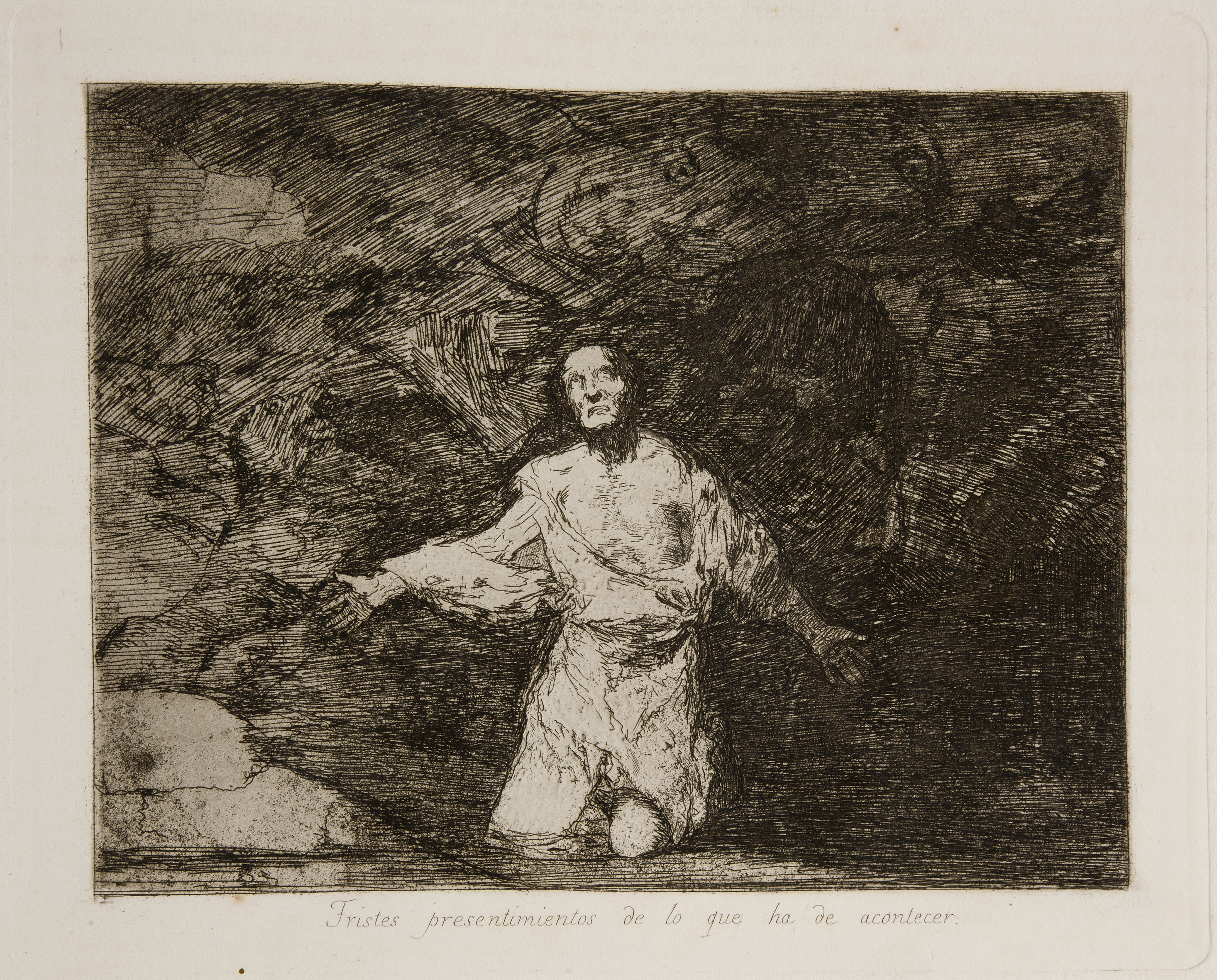 Los desastres de la guerra, plate No. 1, (1st edition, Madrid: Real Academia de Bellas Artes de San Fernando, 1863)